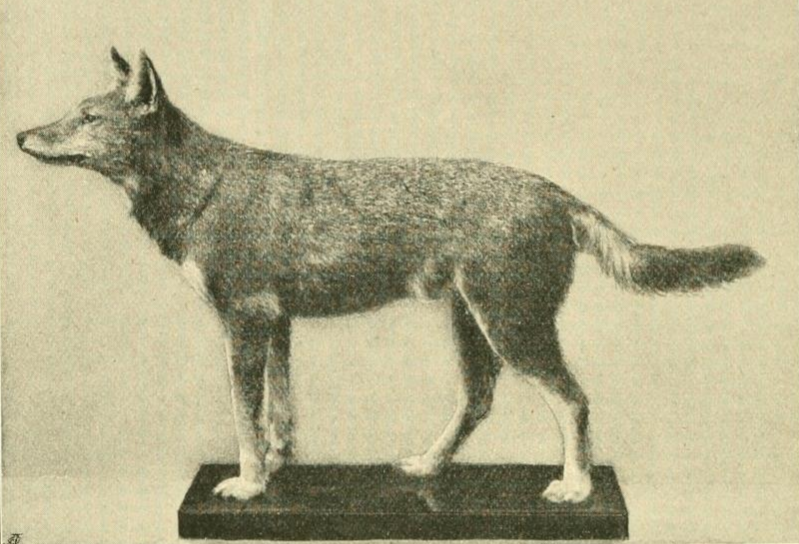 Ethiopian wolf specimen, shot by Percy Powell-Cotton and mounted by Rowland Ward